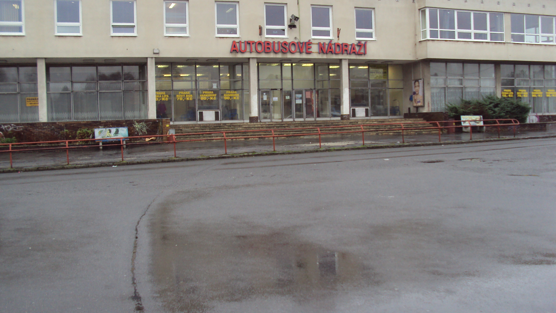 Bus Station Česká Lípa